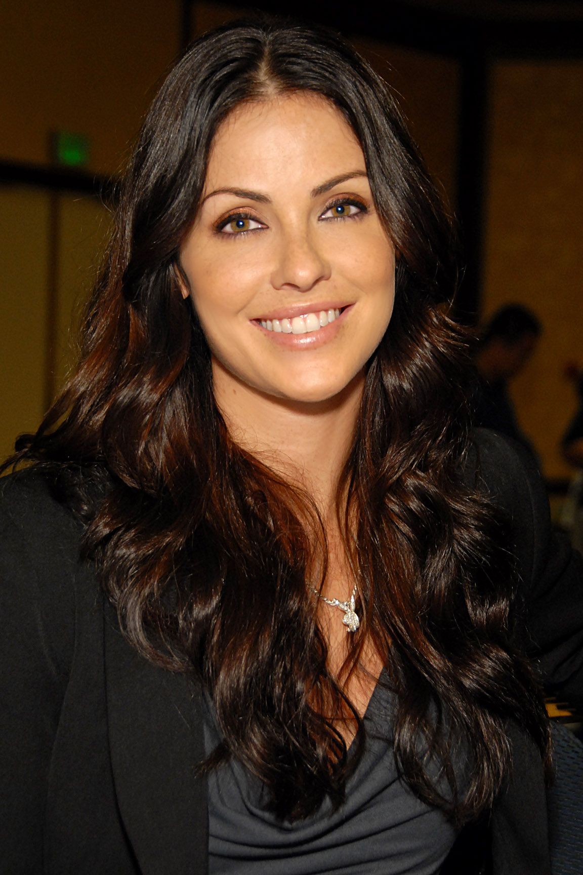 Summer Altice attending the "Sign Of The Times" model convention at the LAX Marriott, Los Angeles, CA on October 1, 2011 - Photo by Glenn Francis at